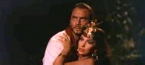 Screenshot of Gina Lollobrigida as Sheba and Yul Brynner from the Solomon and Sheba trailer